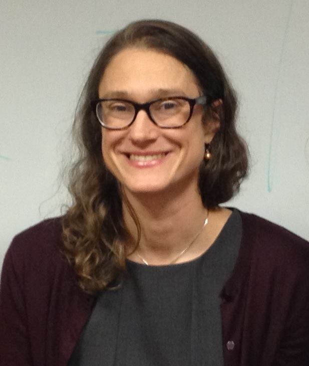 Green Party candidate for Ohio Governor 2018 election Former state co-chair of the Ohio Green Party